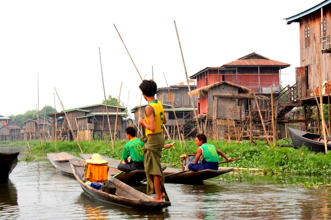 Inle Lake is suffering from the environmental effects of increased population and rapid growth in both agriculture and tourism. During the 65-year period from 1935 to 2000, the net open water area of Inle Lake decreased from 69.10 km² to 46.69 km², a loss of 32.4%, with development of ﬂoating garden agriculture, which occurs largely on the west side of the lake (a practice introduced in the 1960s)